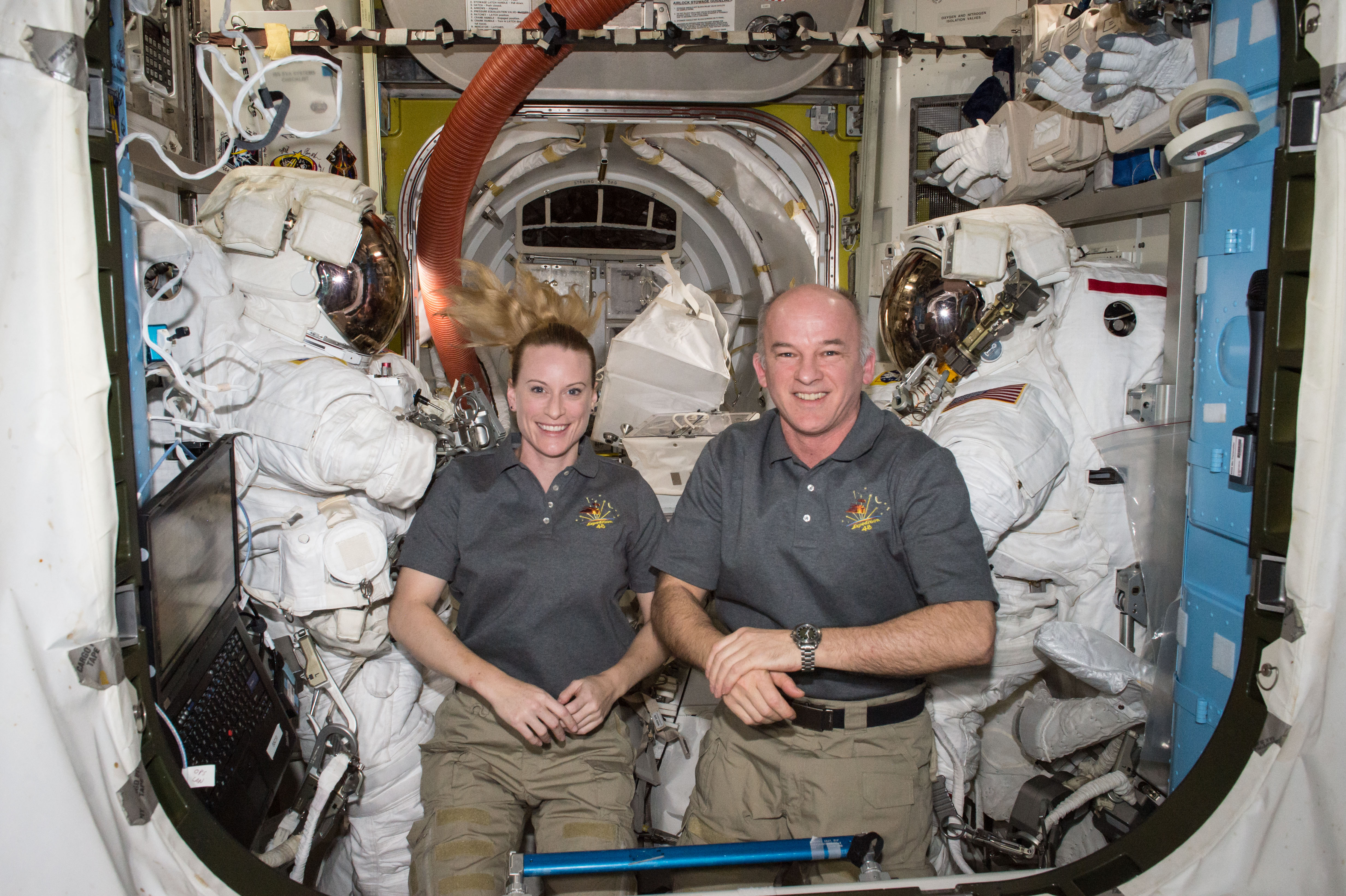 Astronauts Kate Rubins and Jeff Williams are pictured in front of the U.S. spacesuits they will wear during a spacewalk Friday morning.